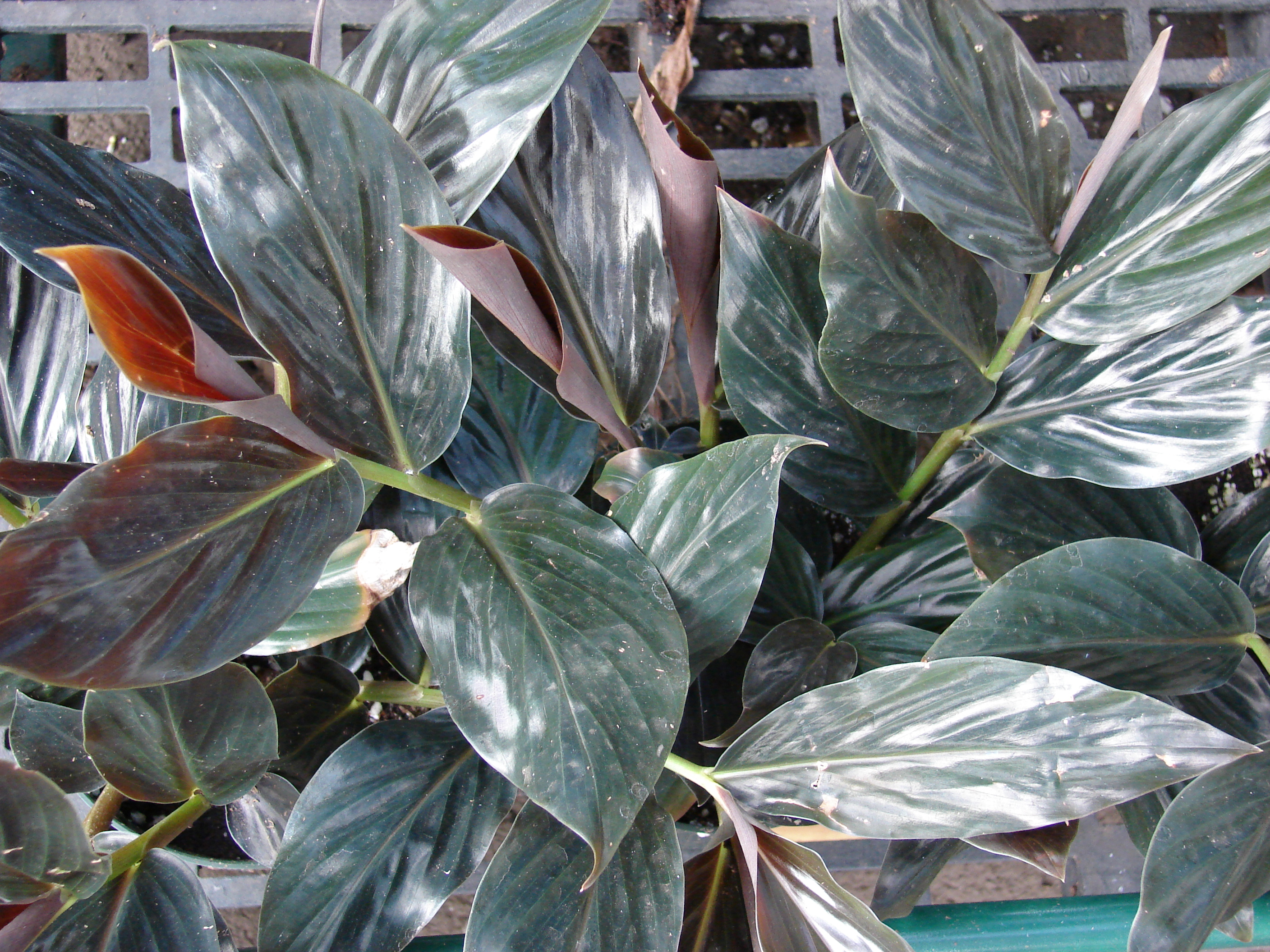 Zingiber malaysiana (Midnight habit). Location: Maui, Kula Ace Hardware and Nursery